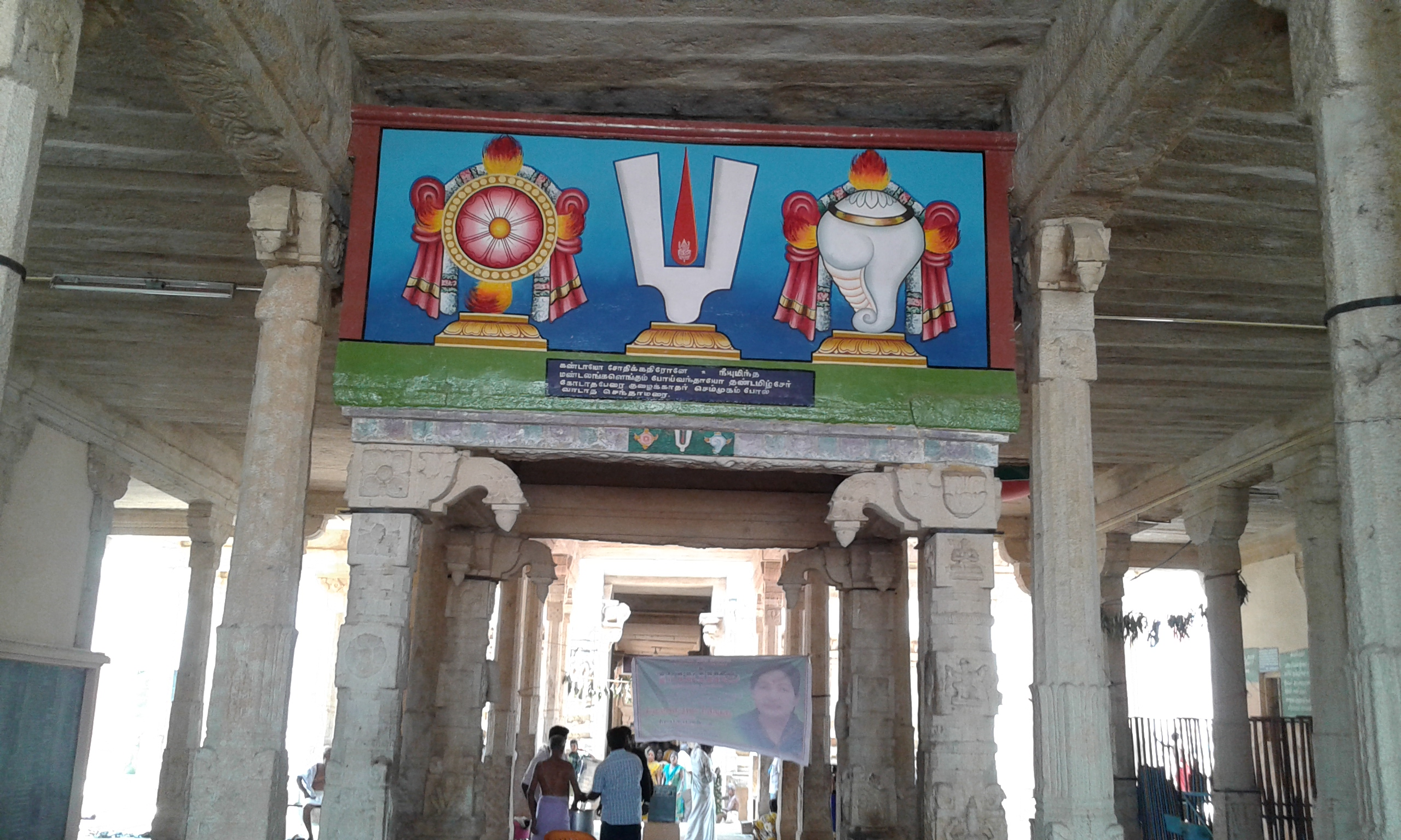 Then Thirupperai